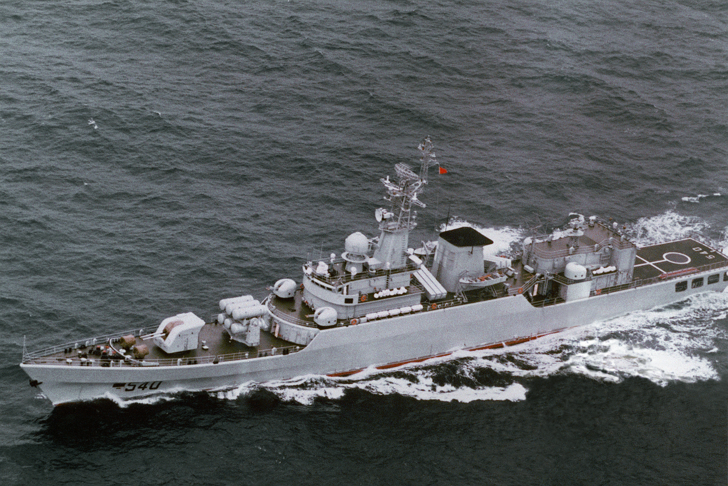 A port bow view of the Chinese Navy Jiangwei class frigate PRC Huiman (F-540) underway.